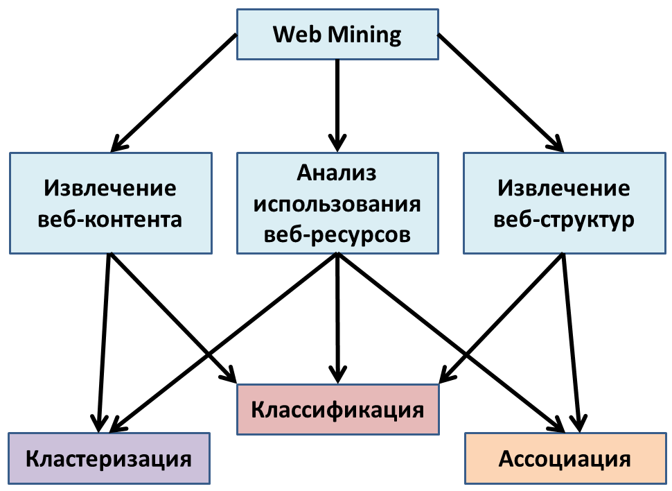 The general relationship between the categories of Web Mining and objectives of Data Mining